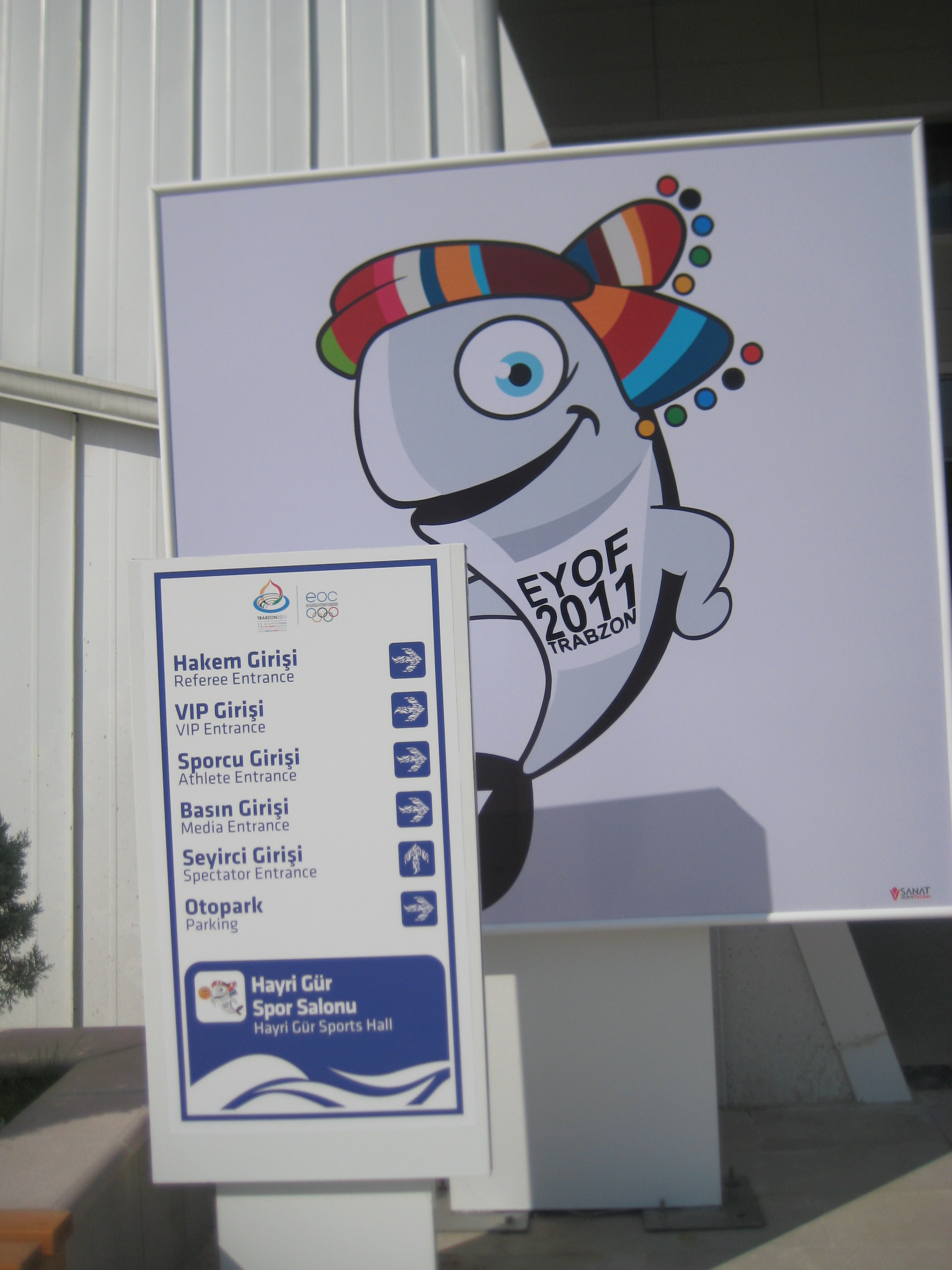 EYOF 2011 official mascot